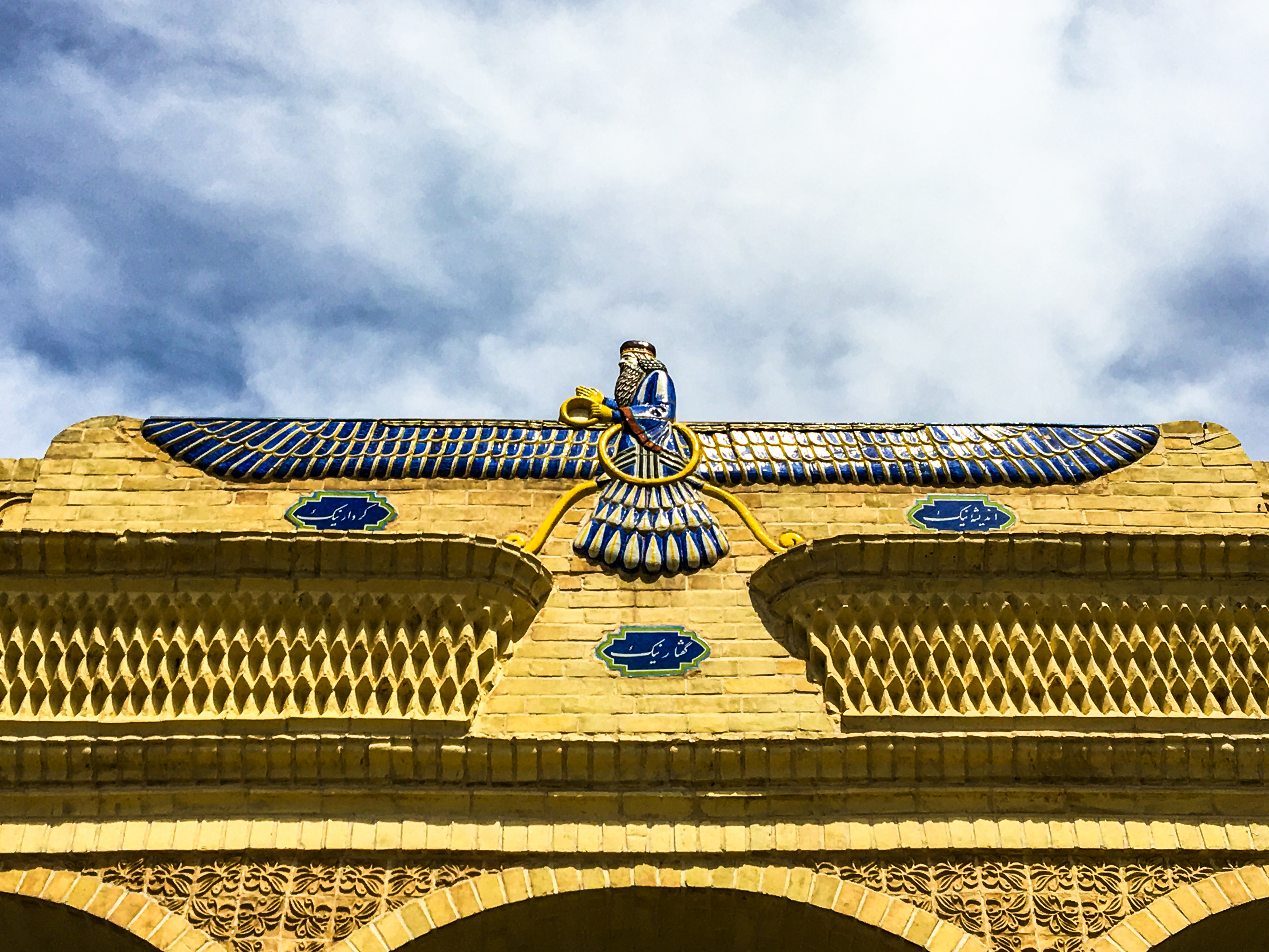 The Yazd Atash Behram, also known as Atashkadeh-e Yazd), is a temple in Yazd, Yazd province , Iran.